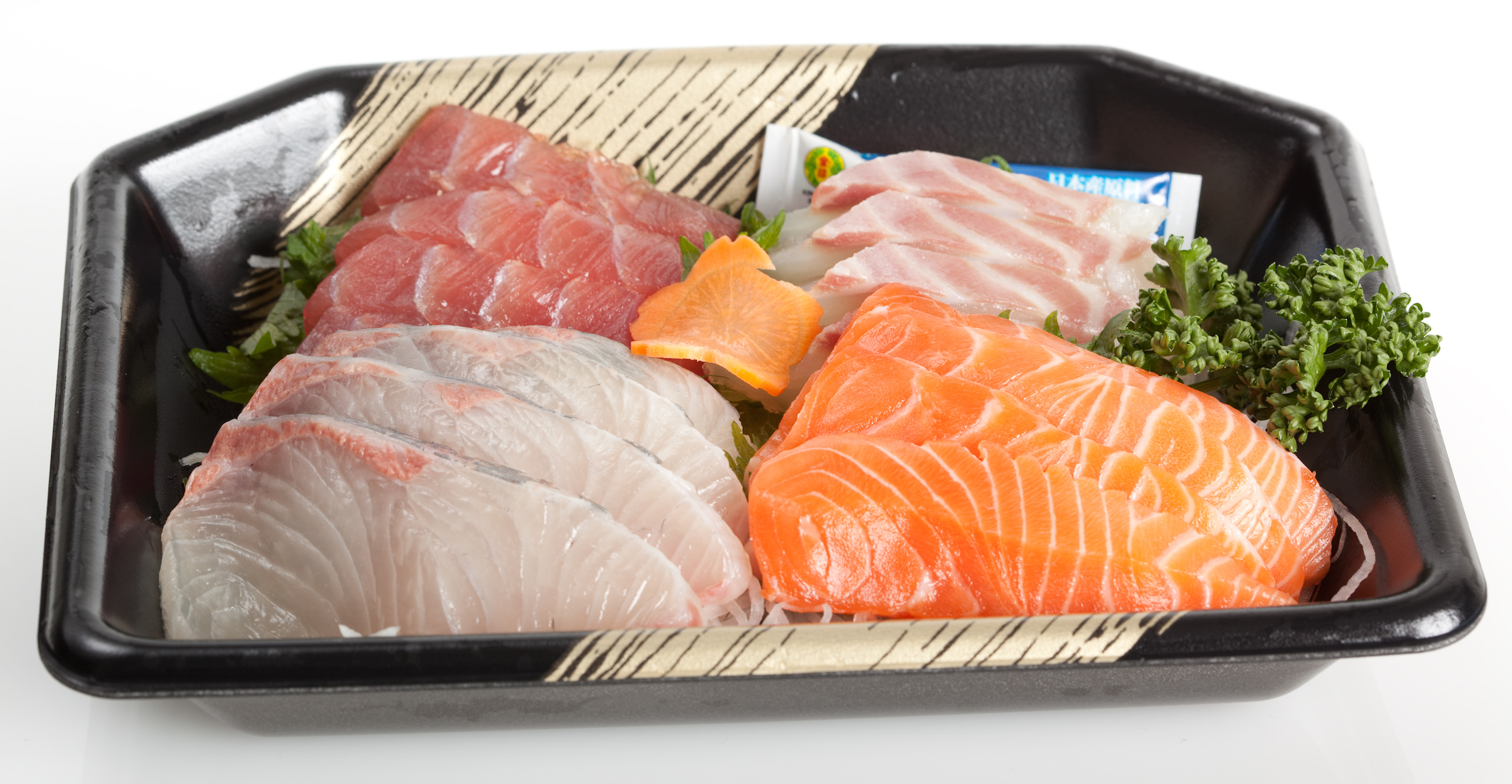 Typical Japanese sashimi set, as sold in department stores.